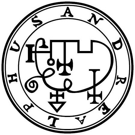 Andrealphus seal, THE BOOK OF THE GOETIA OF SOLOMON THE KING (1904)